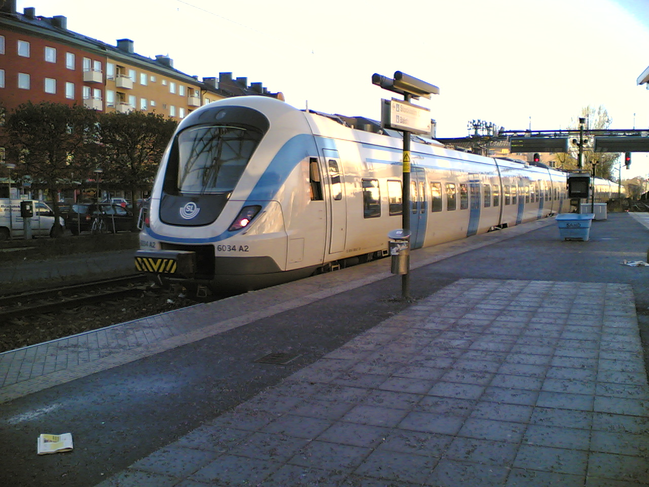 Sundsbyberg station, Sweden. Commuter train.